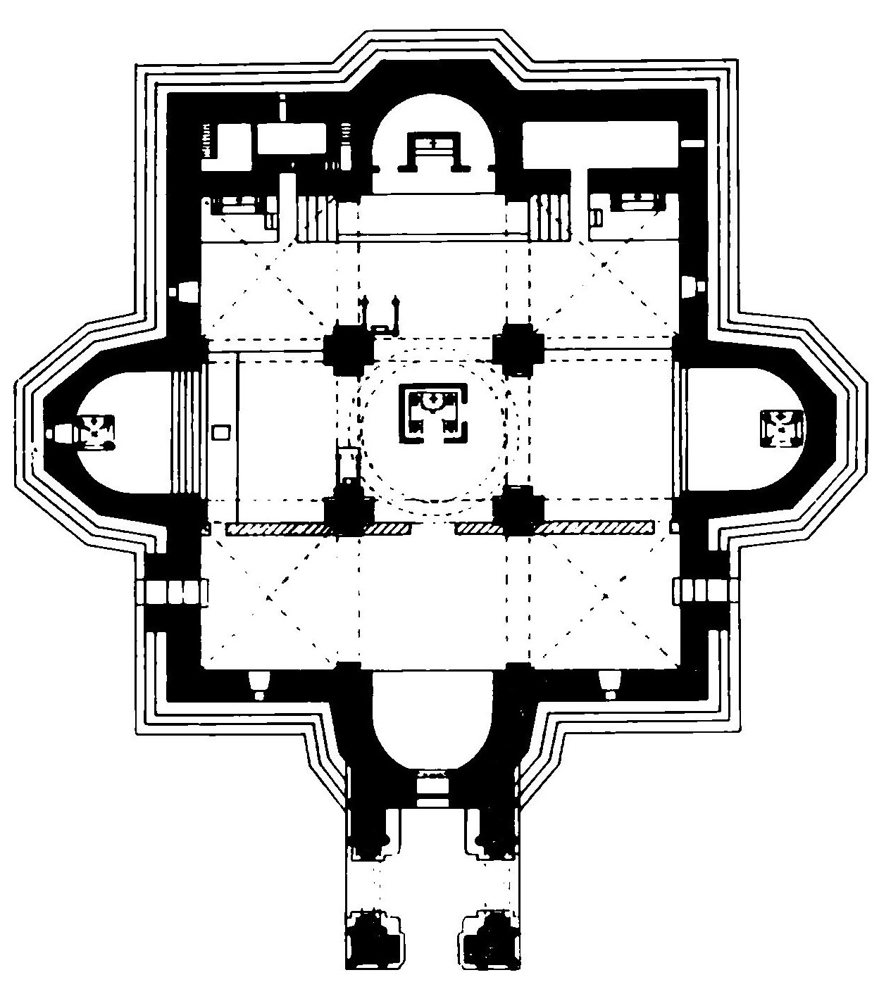 Plan of Etchmiadzin Cathedral